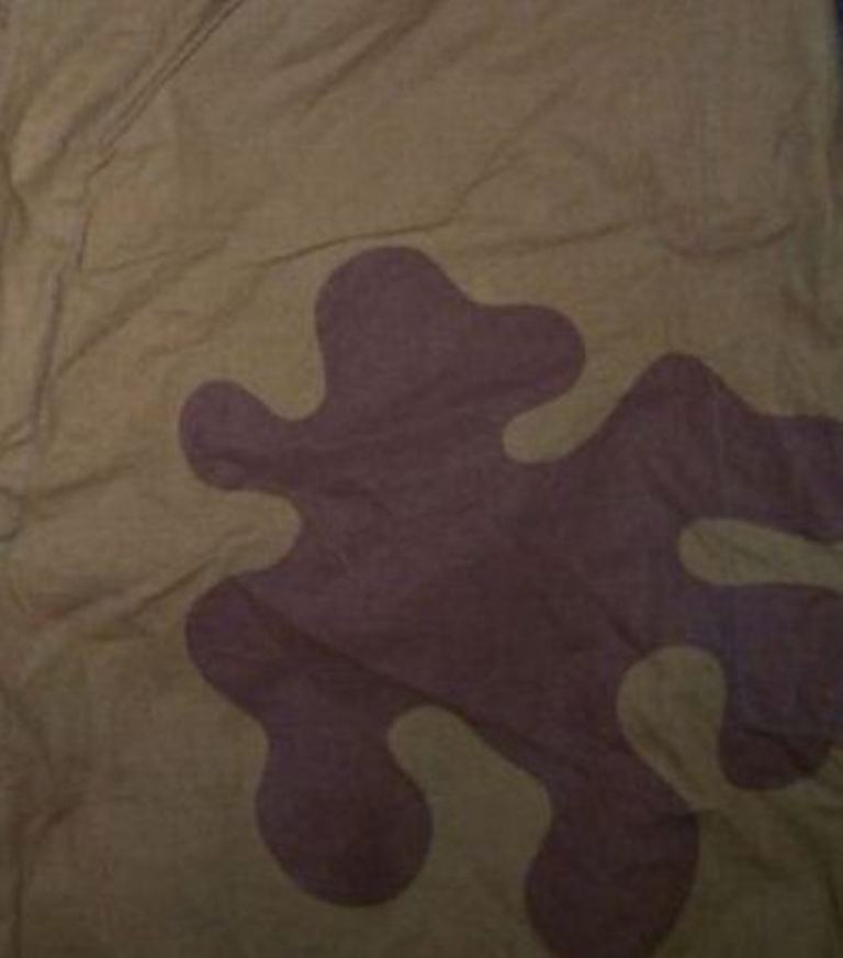 An example of Amoeba camouflage pattern (USSR)